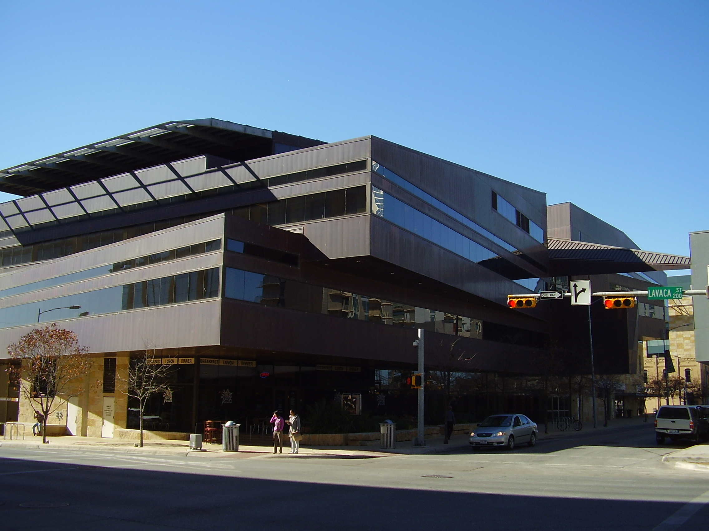 City Hall of Austin, Texas since 2006